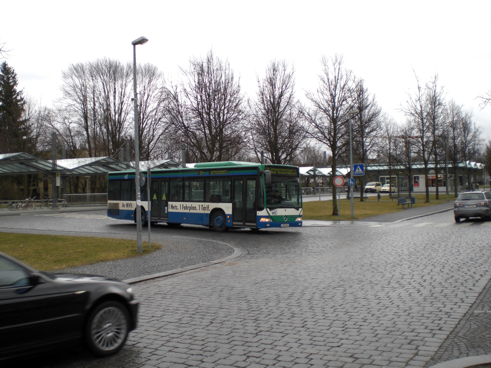 Place at the railway station in Ismaning near Munich, Germany